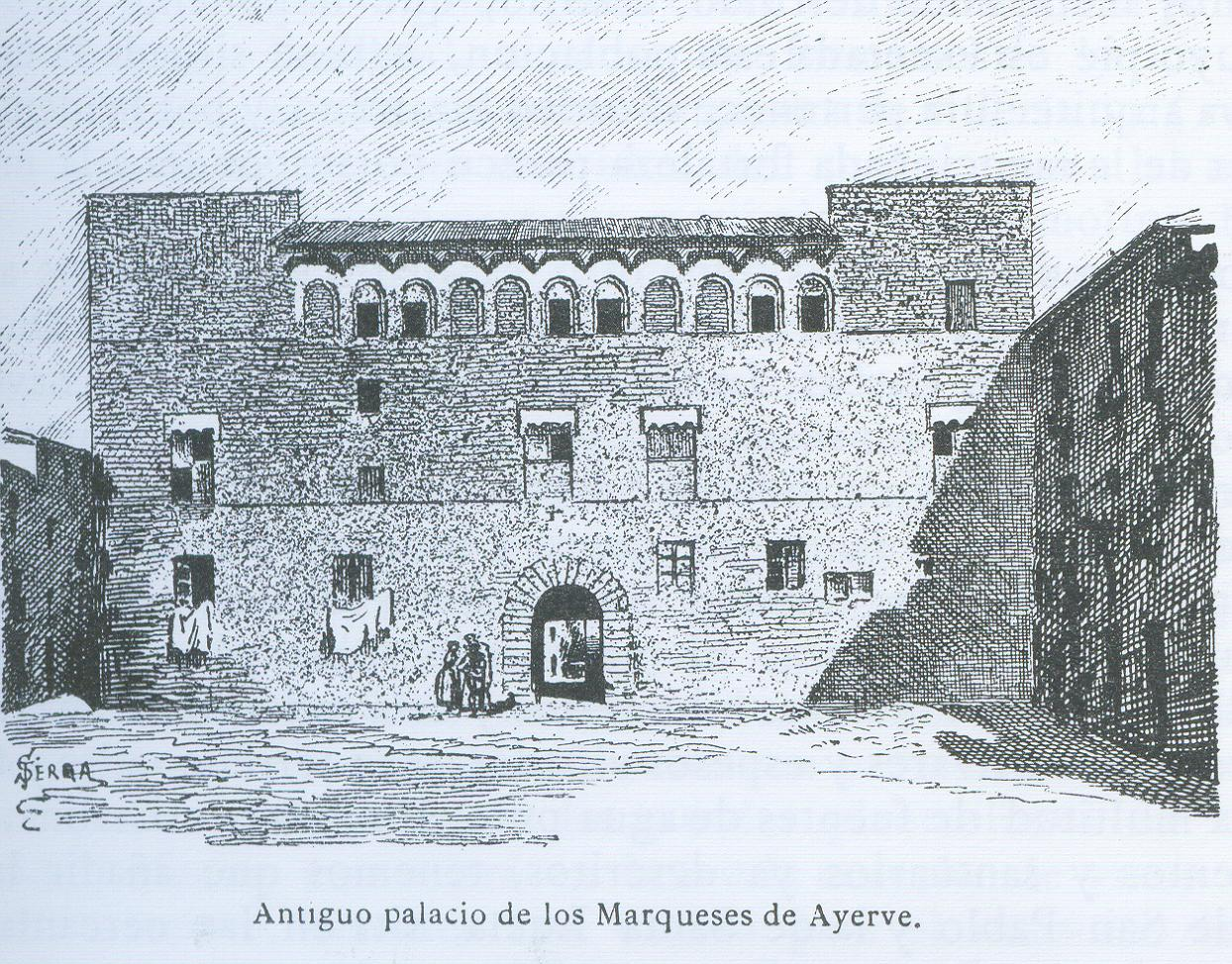 Engraved on the book "ARAGON, HISTORICAL, PICTURESQUE AND MONUMENTAL" which appeared in the late 1880s. Ayerbe Palace appreciates the roofline that disappeared in the early twentieth century